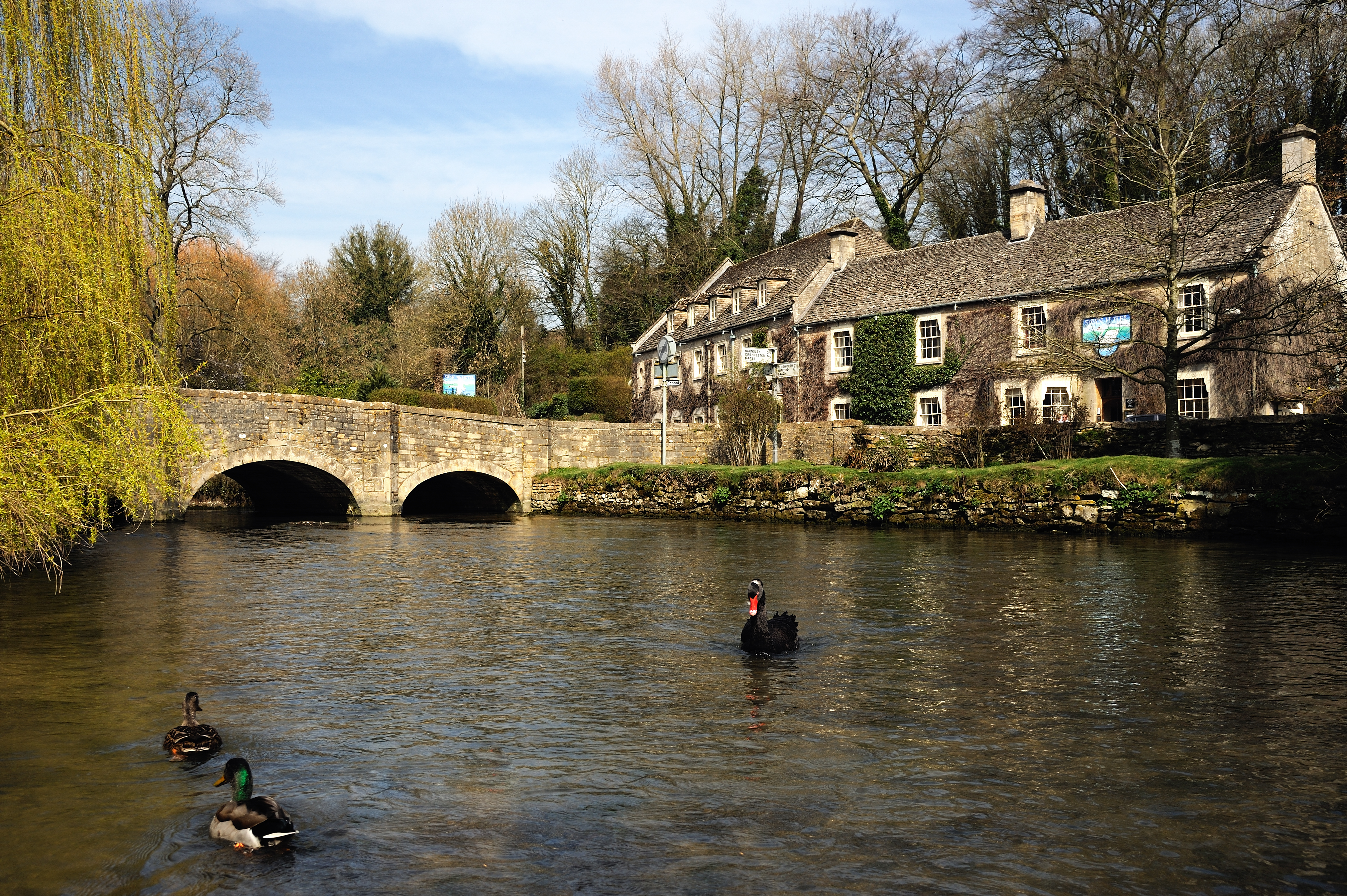 The Swan Hotel, along the River Coln, in Bibury. Bibury is a Cotswold village.